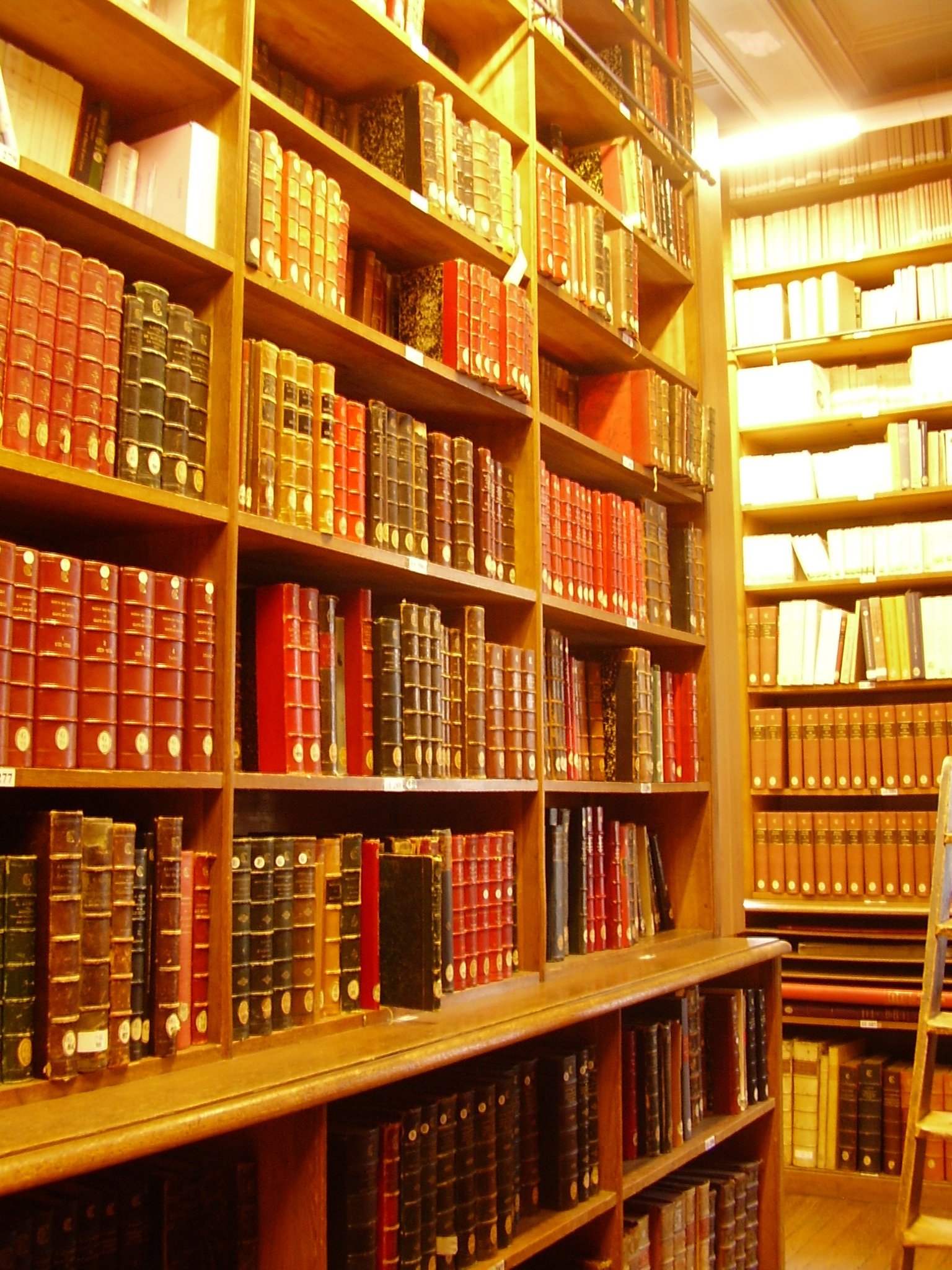 Ecole des chartes (Paris, Sorbonne) library ("History room" of the library)